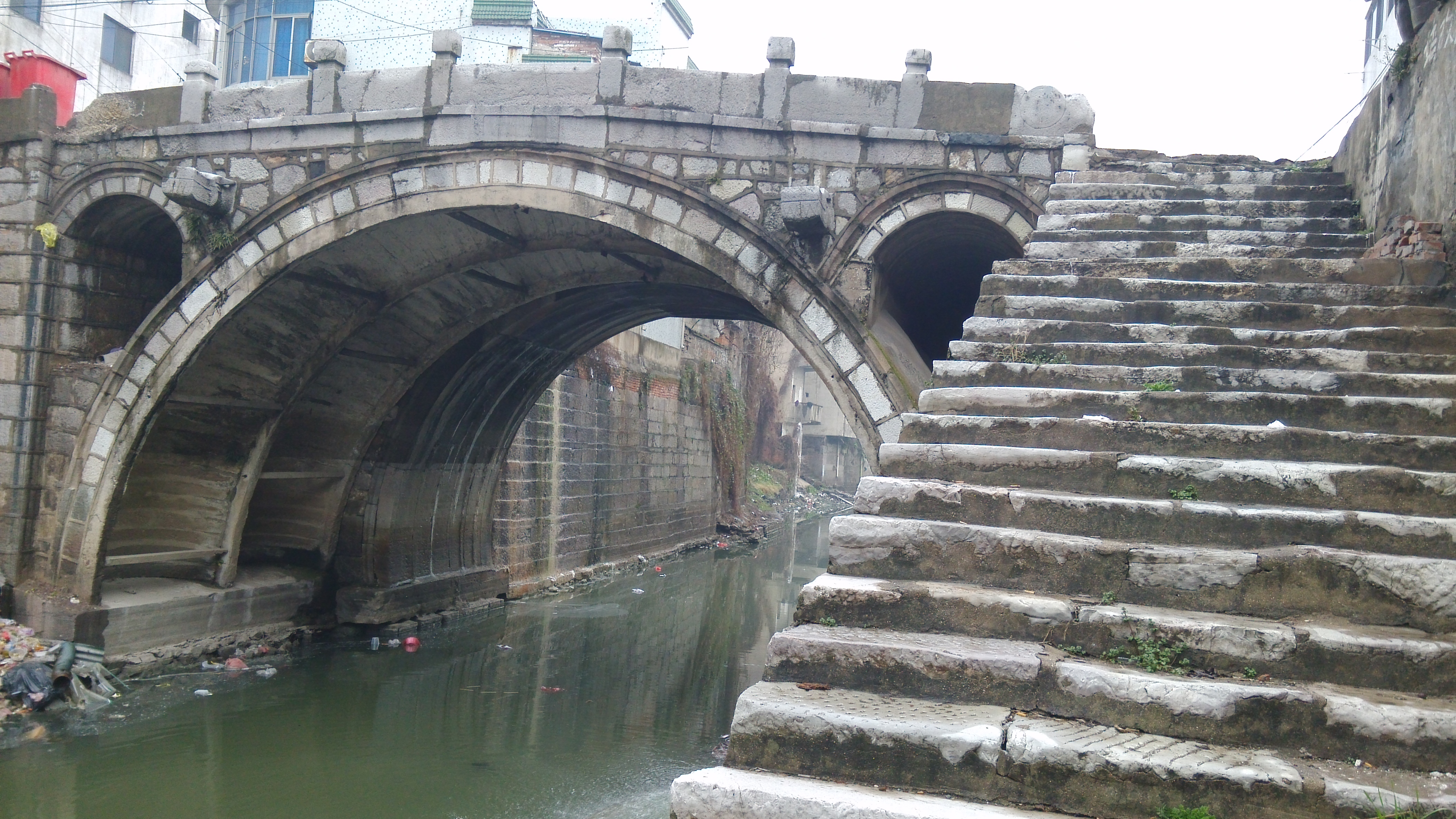 Zhuze Bridge in Zhuze Town,Liyang City,Jiangsu Province,PRC